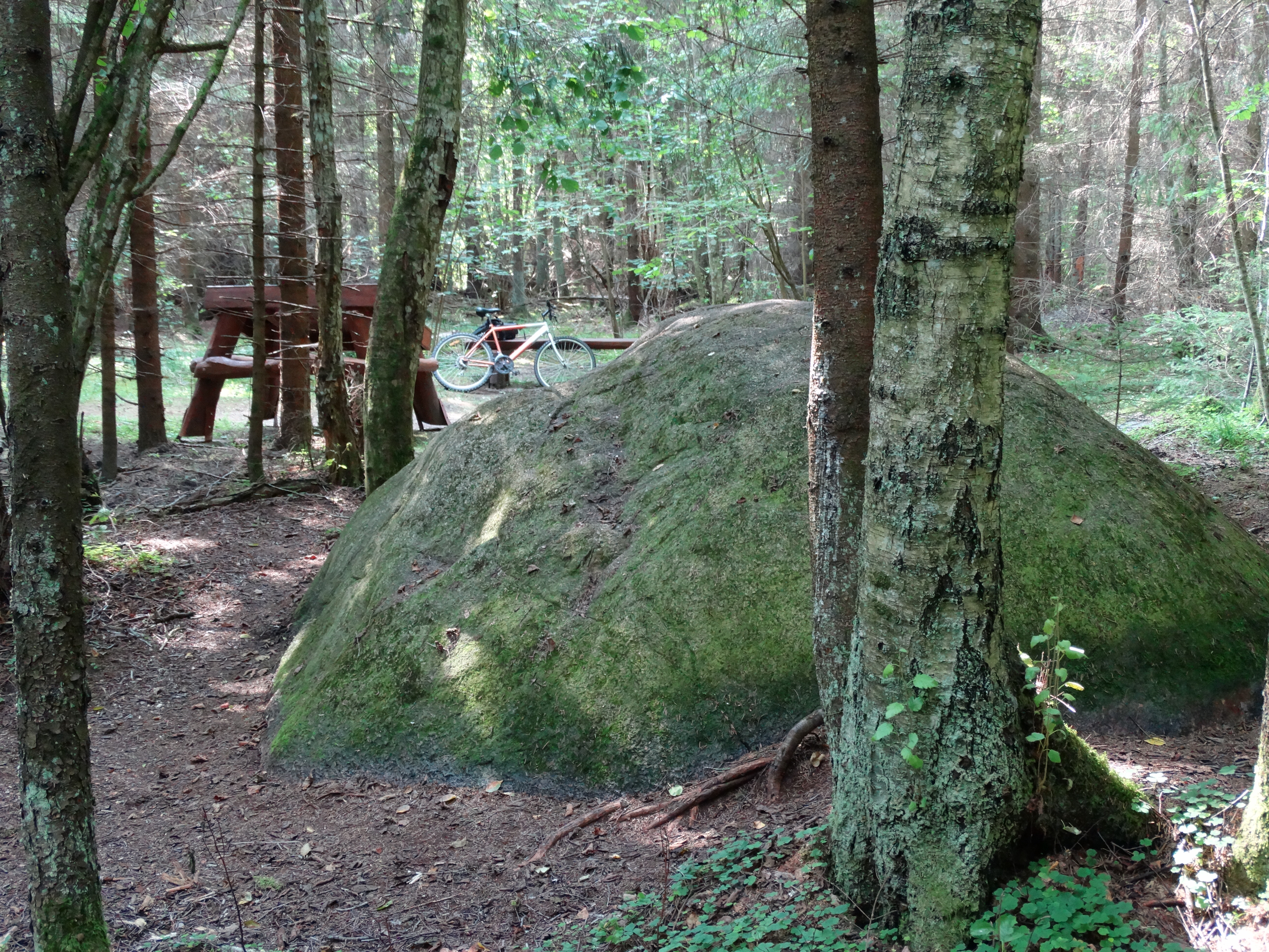 Swamp of Mūšos tyrelis, educational walkway, Tyrelis Stone, Joniškis district, Lithuania